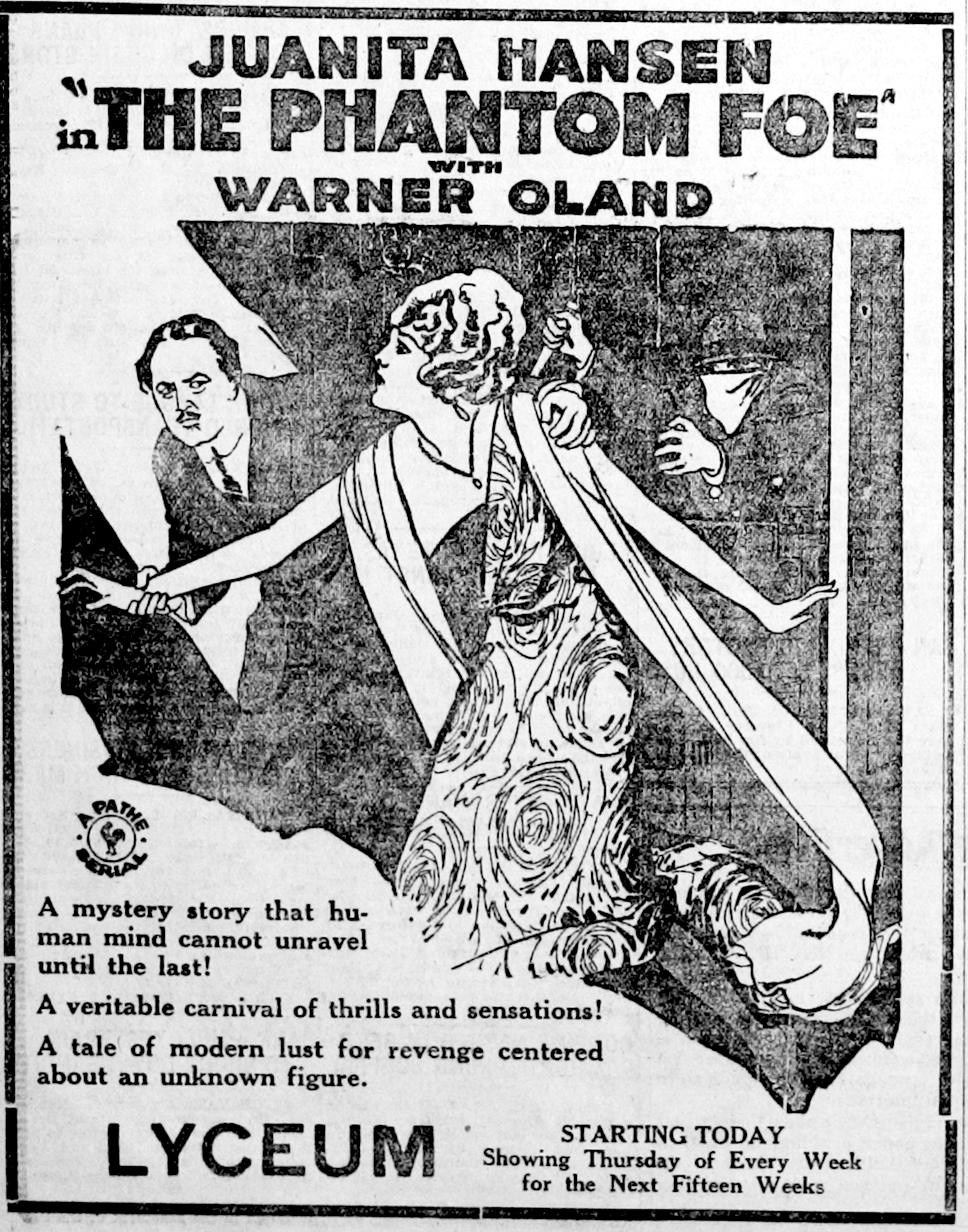 The Phantom Foe is a 1920 adventure film serial directed by Bertram Millhauser. This is a newspaper advertisement.